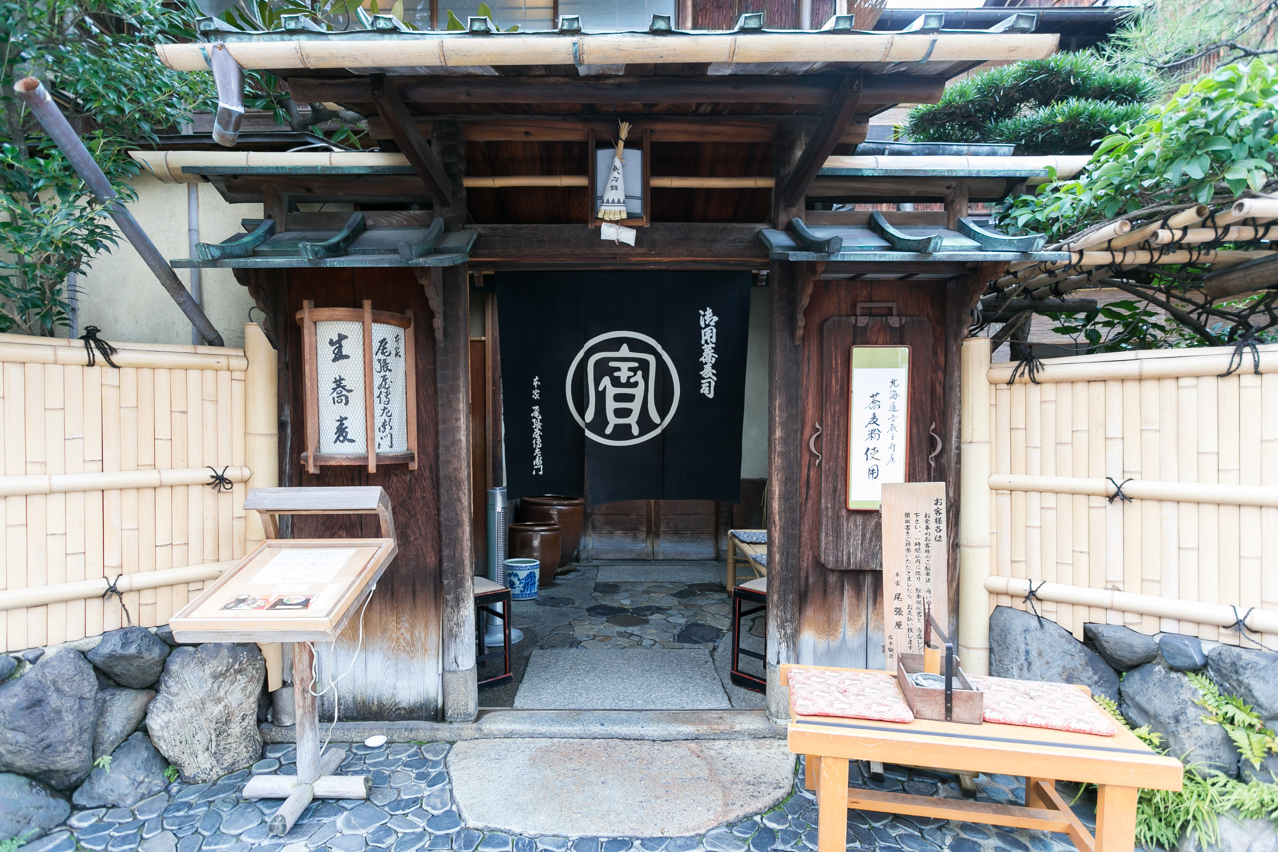 Honke Owariya, entrance to oldest soba noodle shop in Kyoto Honke Owariya, the oldest soba noodle shop in Kyoto, Japan